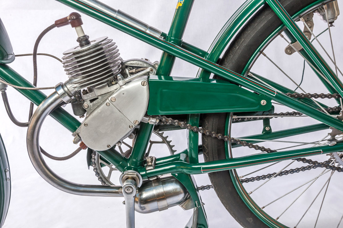 USSR motorized bicycle W-902 (1960) with D-4 engine